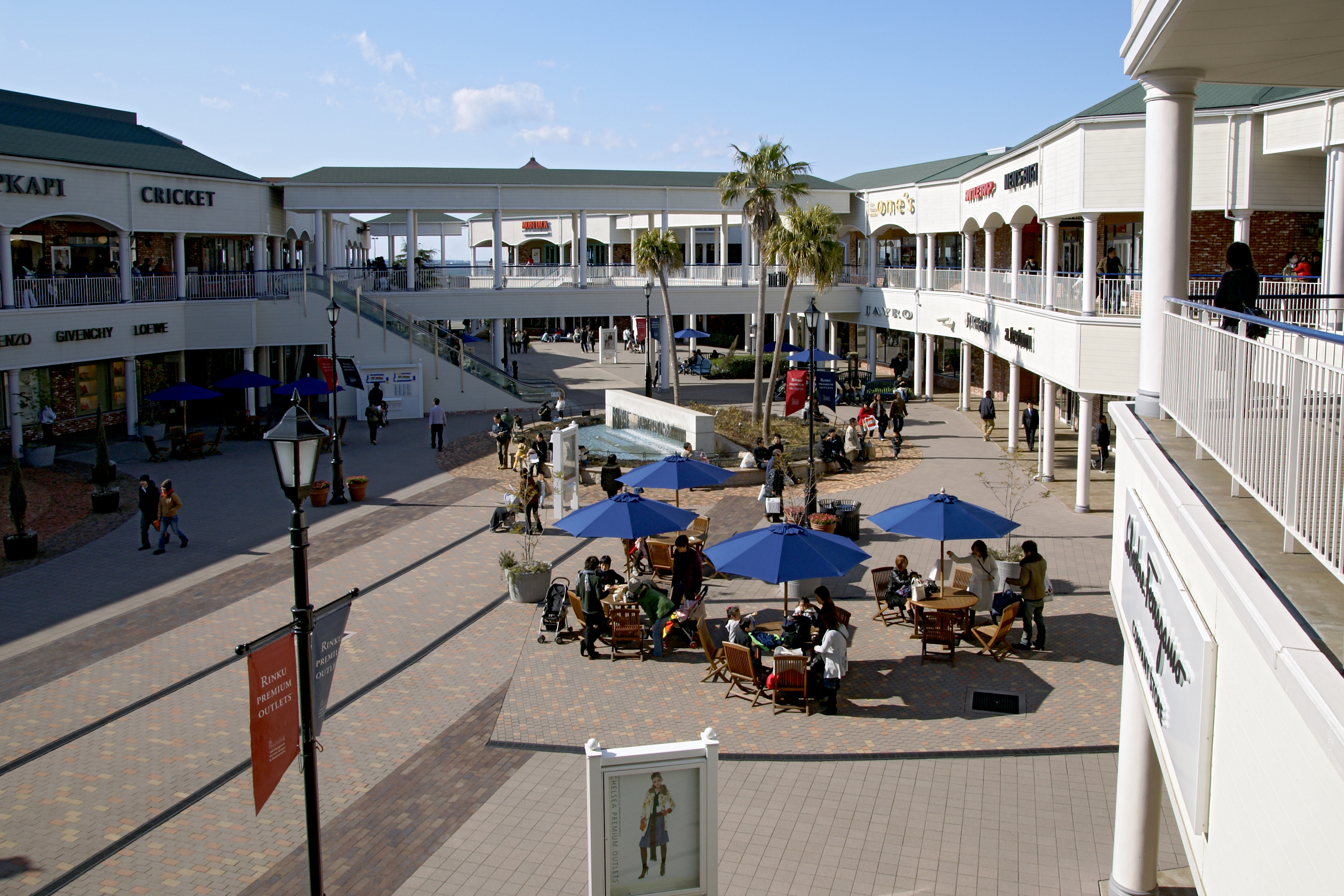 Rinku Premium Outlets in Izumisano, Osaka prefecture, Japan